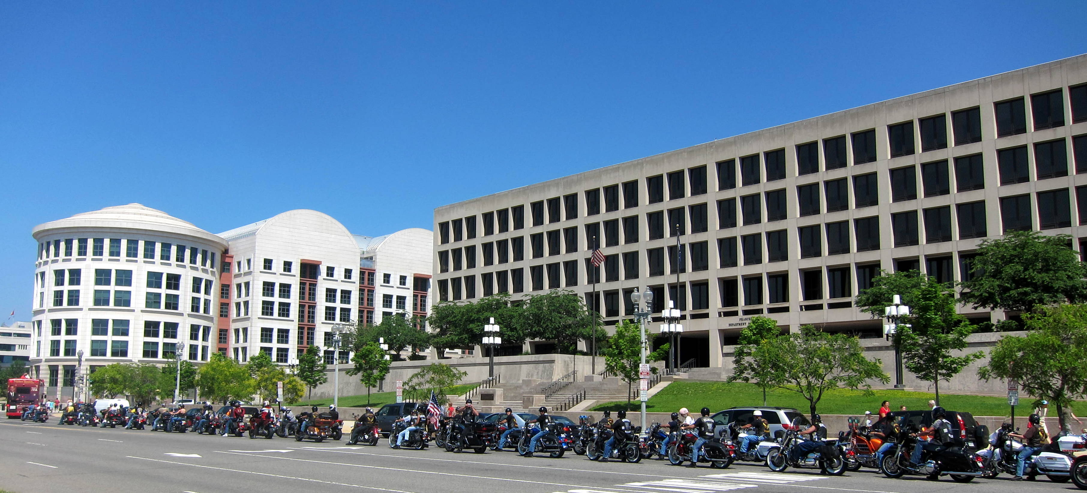 Participants from the annual Rolling Thunder Memorial Day gathering in Washington, D.C., driving on the 200 block of Constitution Avenue, N.W., near Capitol Hill. The Frances Perkins Building is visible on the right.